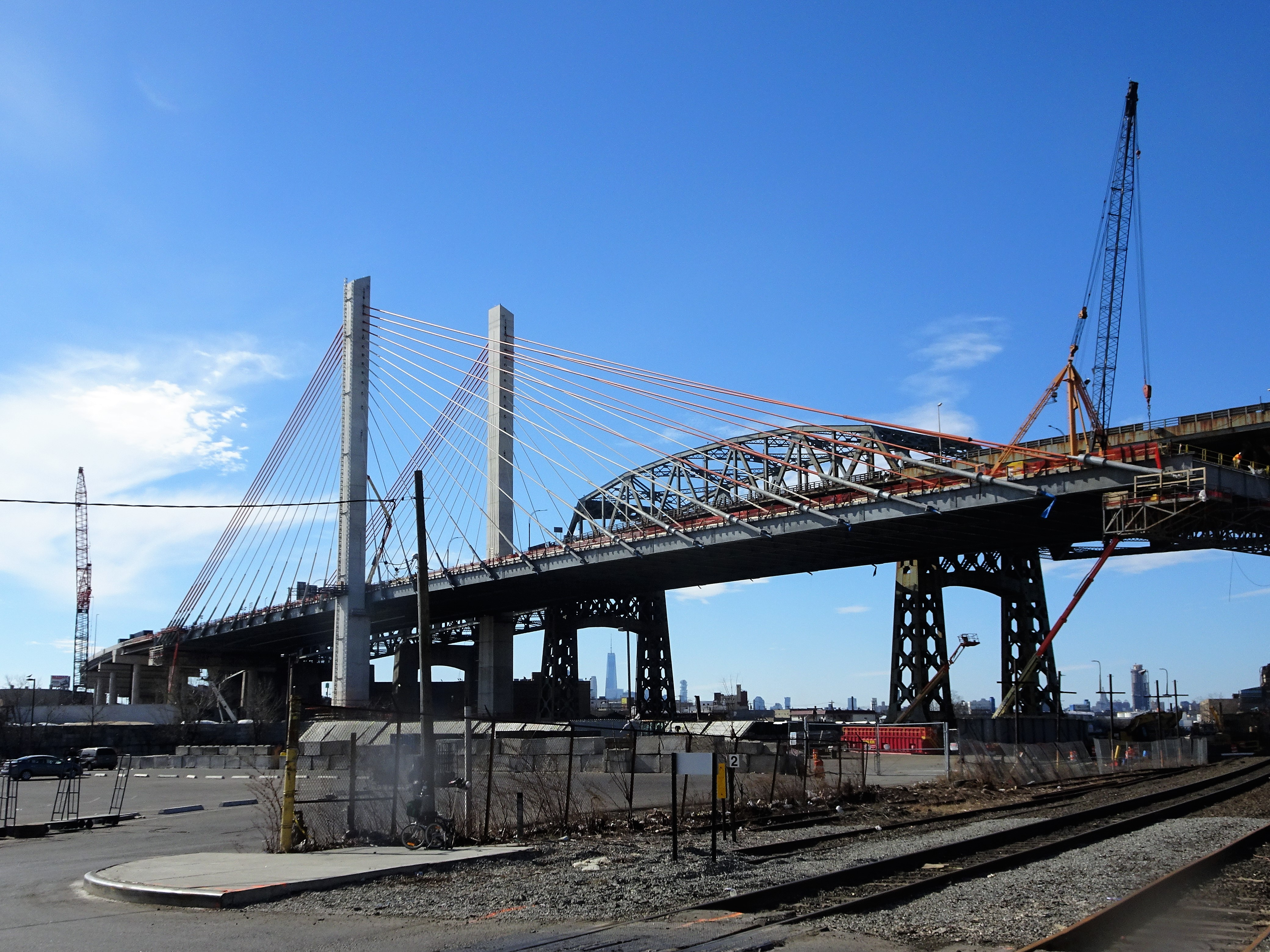 Looking west at construction for bridge replacement. EXIF shows location south of tracks due to photographer's error.